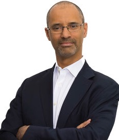 Tom Ilube in 2016